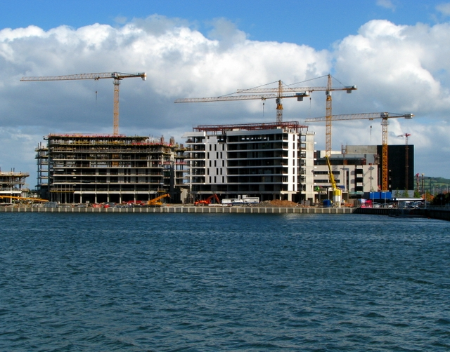 'Titanic Quarter' development, Abercorn Basin, Belfast A view of the 'Titanic Quarter' redevelopments around the Abercorn Basin in Belfast. For more pictures on a similar theme see 2913791 .